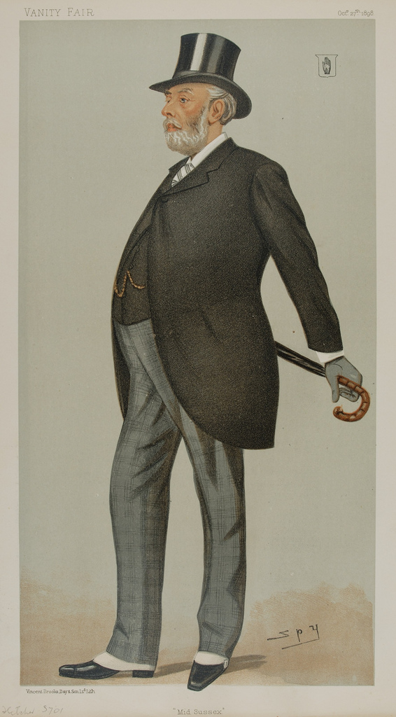 Statesmen No. 701: Caricature of Sir Henry Fletcher MP. Caption read "Mid Sussex".